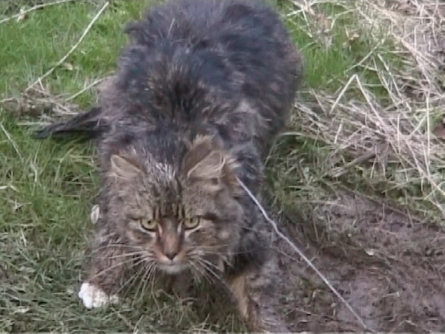 Feral cat caught in a snare.